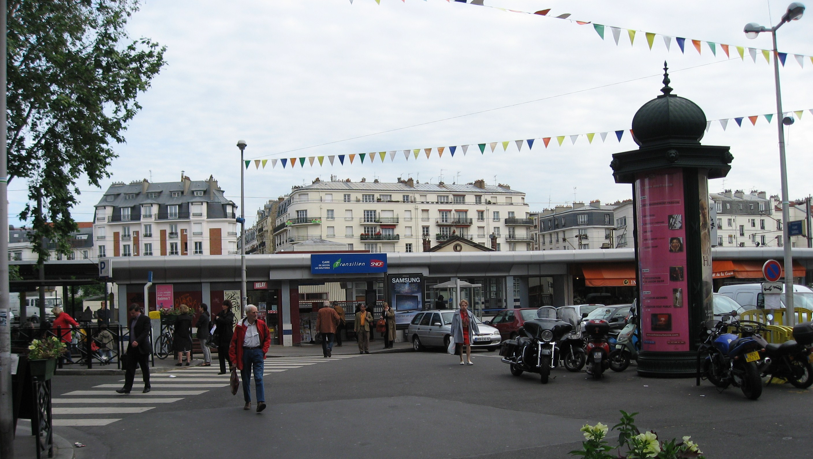 South entry of Gare de Bécon-les-Bruyères